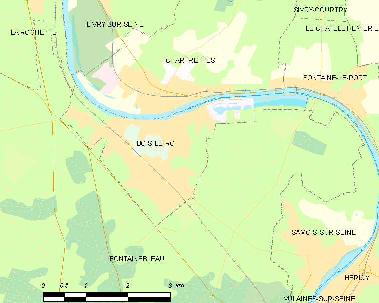 Map of French municipality Bois-le-Roi